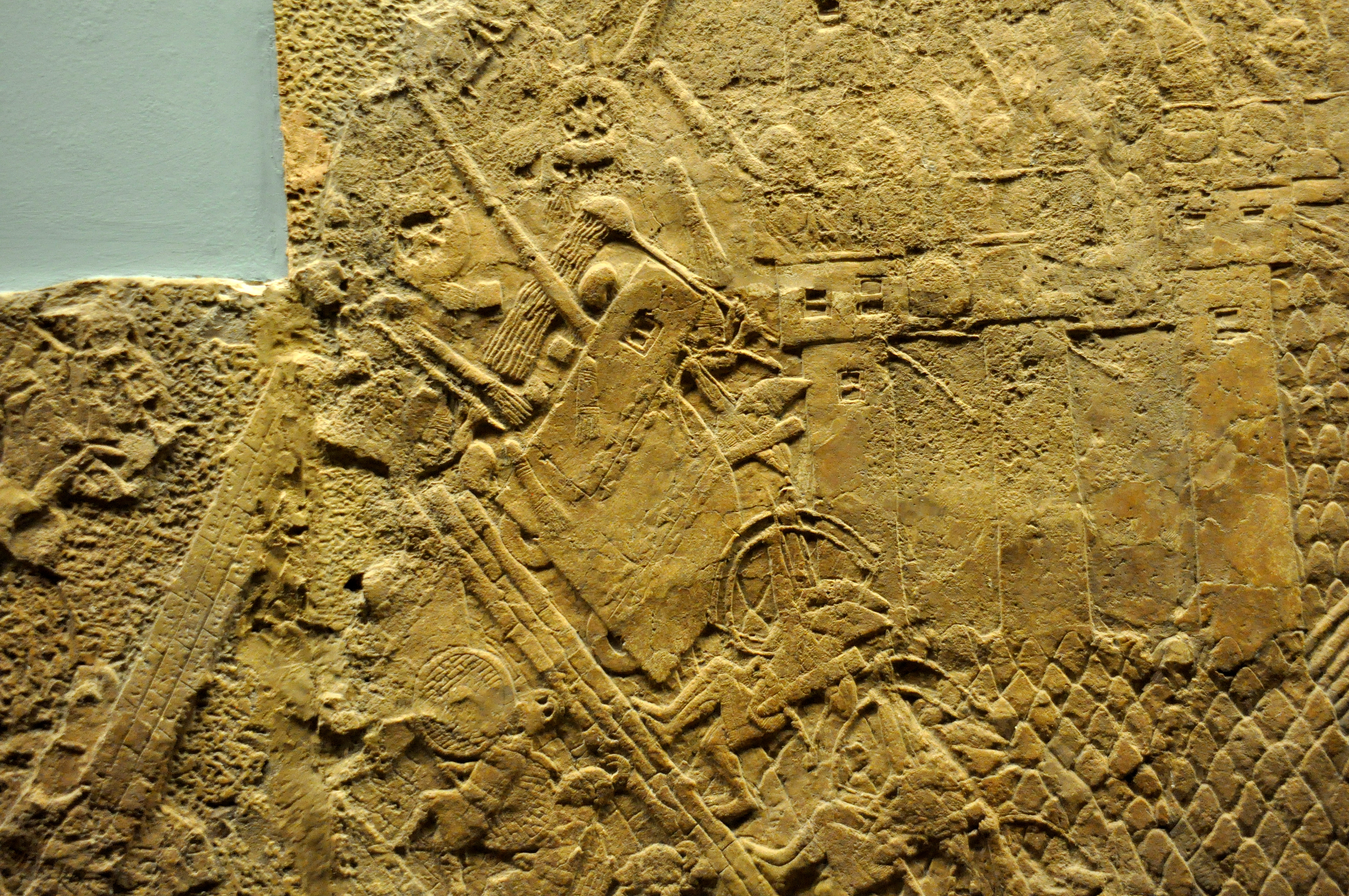 Assyrian siege-engine attacking the city wall of Lachish. The ascending and assaulting Assyrian military wave is overwhelming. Detail of a gypsum wall relief dating back to the reign of Sennacherib, 700-692 BCE. From the South-West Palace at Nineveh, Mesopotamia, modern-day Iraq, currently housed in the British Museum, London.